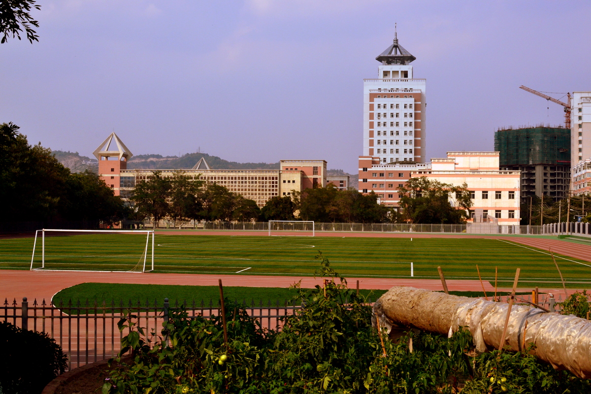 Lanzhou University of Technology - overlooking the football field, teaching building (back left) and administrative building (tall building - back right) from the back gate of the university.